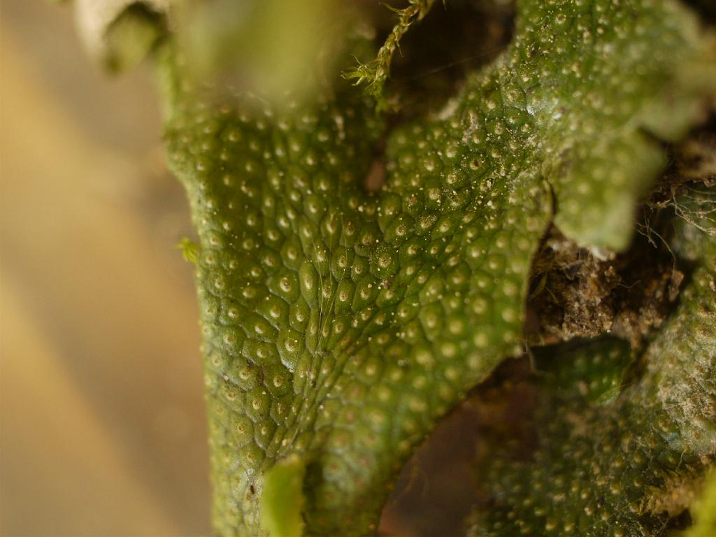 Conocephalum conicum(Conocephalaceae)